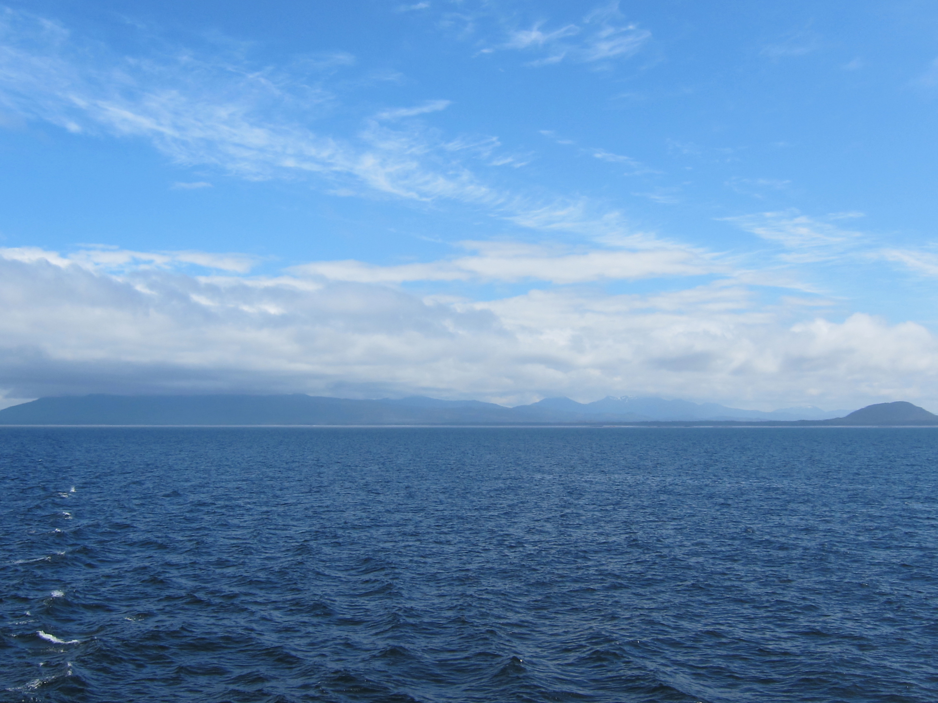 Hecate Strait, with Pitt Island in the background. North coast of British Columbia, Canada.